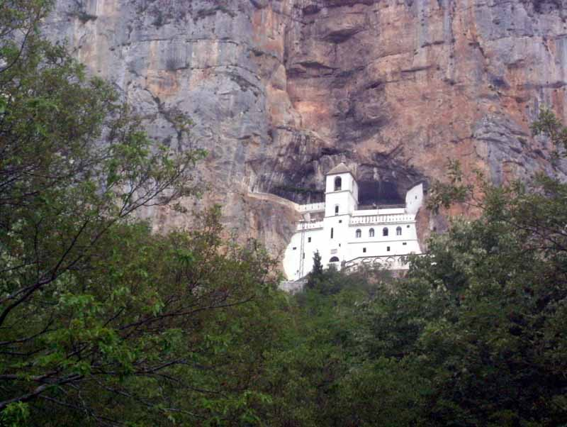 Ostrog Monastery, Montenegro. Photo by: Aleksandar Bogicevic